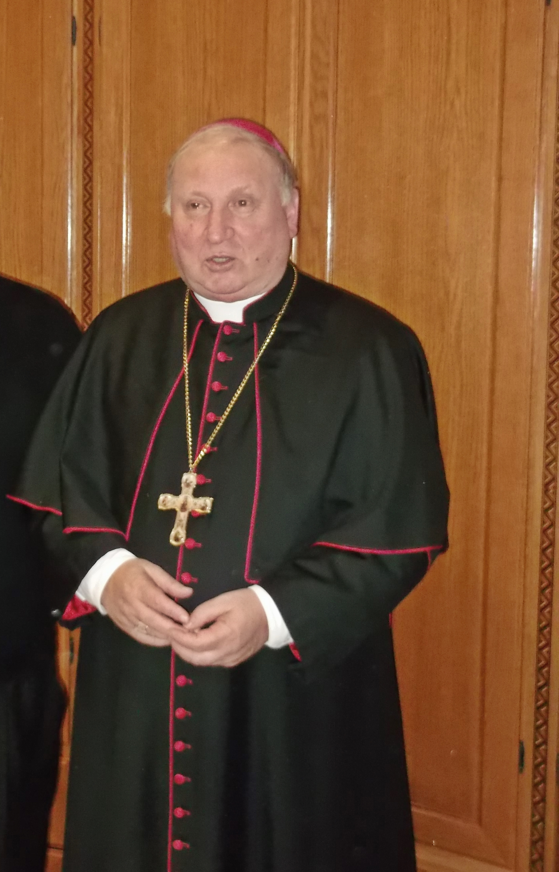 the Bishop of San Marco Argentano-Scalea, Msgr Leonardo Bonanno in a visit in Campora San Giovanni.